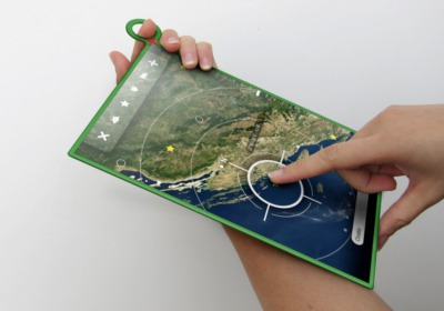 olpc XO-3 concept CGI image